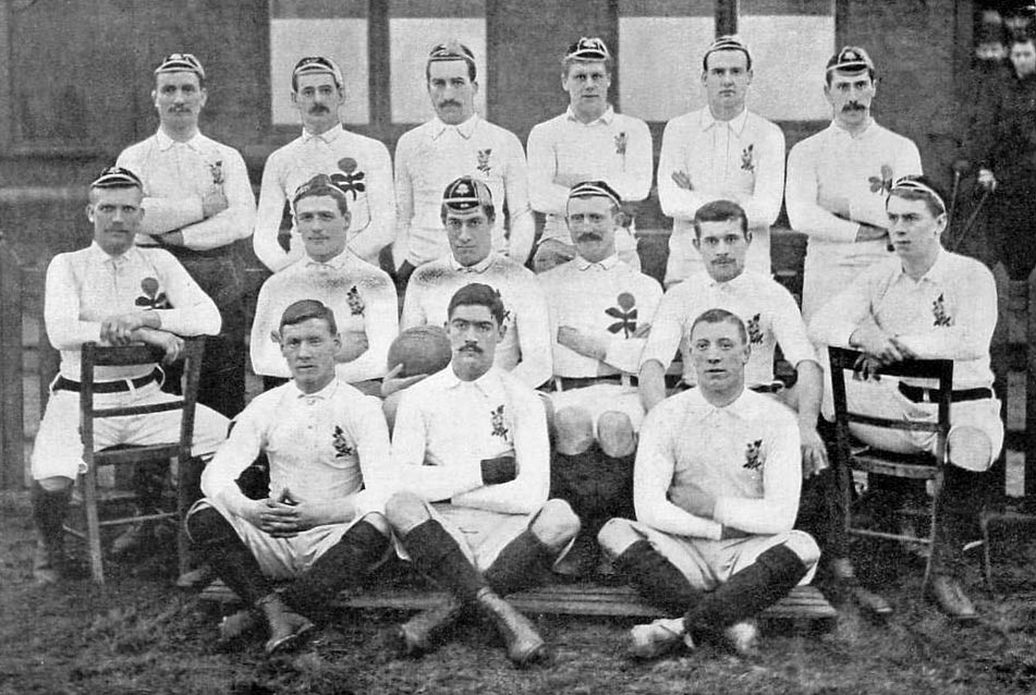 The England national rugby team.